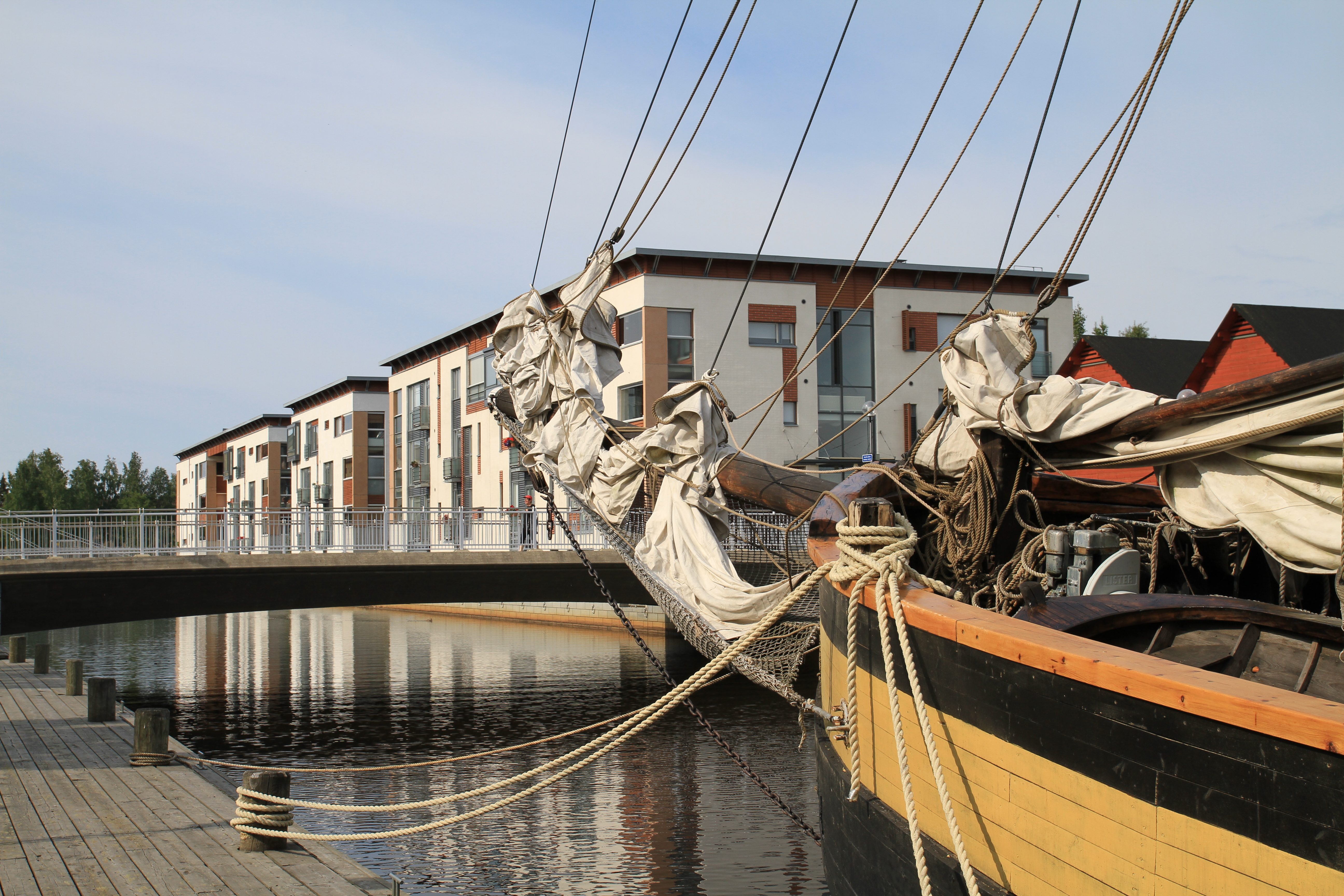 Kiikeli, Oulu 2010